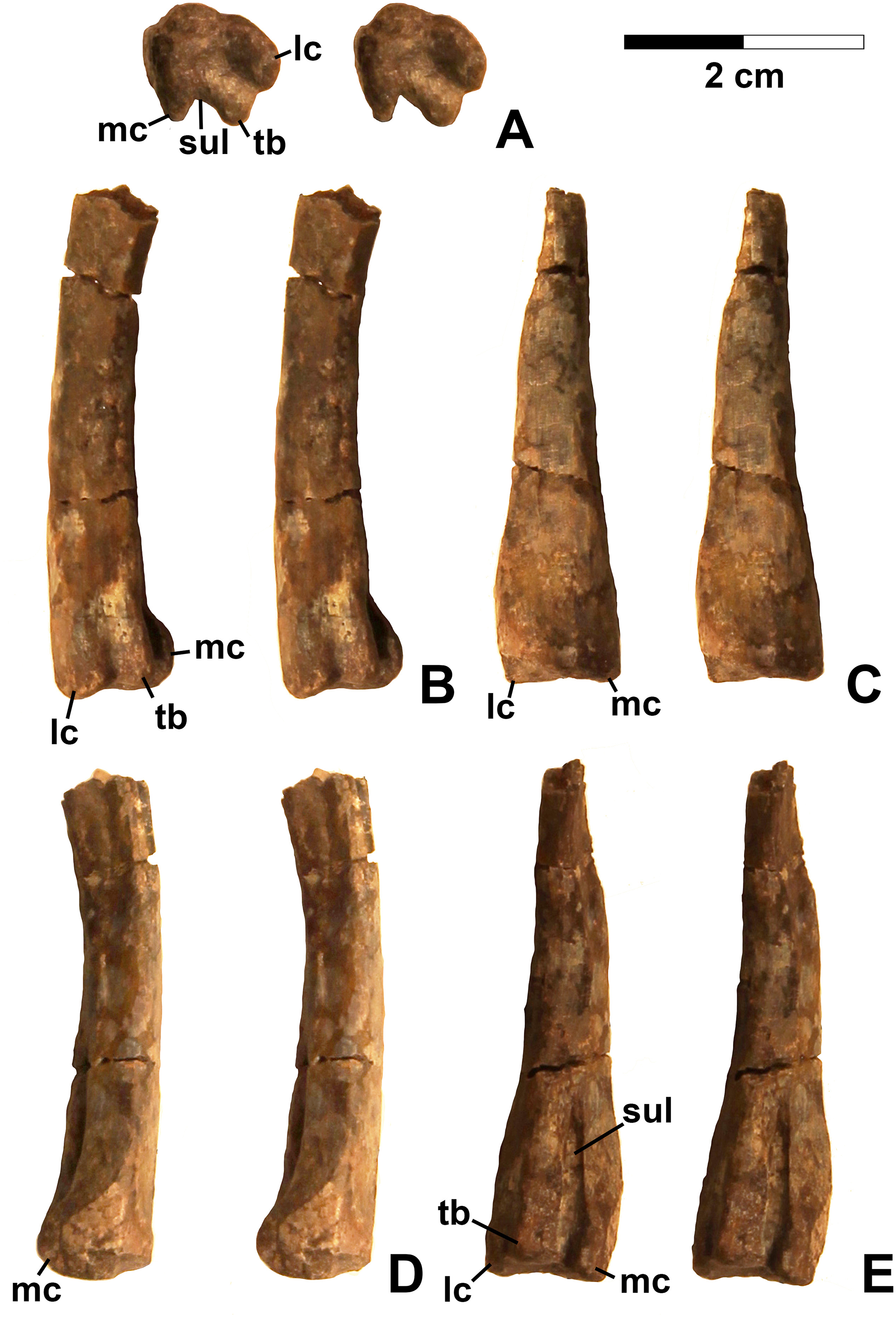 Figure 20: Kwanasaurus williamparkeri distal femur DMNH EPV.67956. (A) Distal view, (B) lateral view, (C) anterior view, (D) medial view, (E) posterior view. Scale bar = 2 cm. lc = lateral condyle mc = medial condyle sul = sulcus tb = crista tibiofibularis